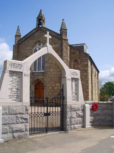 Kintore Parish Church - Church of Scotland. The present church was built in 1819 to a design by the famous Aberdeen architect, Archibald Simpson, who also designed nearby Thainstone House.